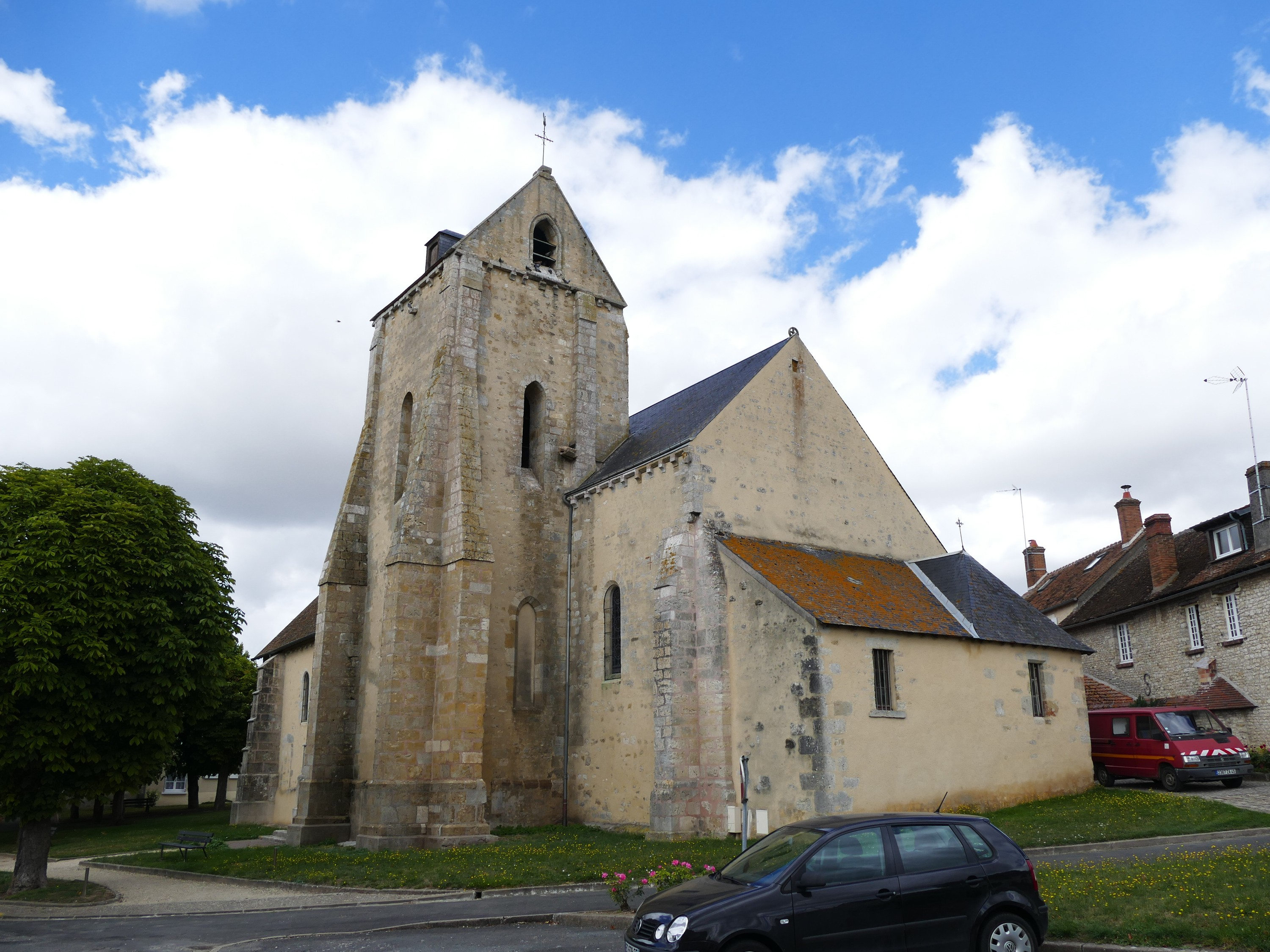 Saint-Martin-and-Saint-Gregory-of-Nicopolis' church in Estouy (Loiret, Centre-Val de Loire, France).